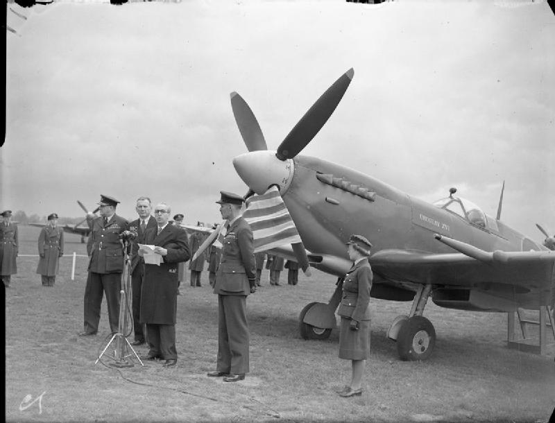 Royal Air Force Fighter Command, 1939-1945. Senor Montero de Bustamante, Uruguayan Charge d'Affaires, speaking at the ceremony at Hornchurch, Essex to name a Spitfire ("Uruguay XVI") subscribed to by the people of Uruguay. Air Vice Marshal H W L Saunders, Air Officer Commanding No 11 Group of Fighter Command, is on the extreme left, with the Rt Hon H H Balfour MP, Under Secretary of State for Air (second from left) and Air Vice Marshal R M Hill, Air Officer Commanding No 12 Group (centre foreground).